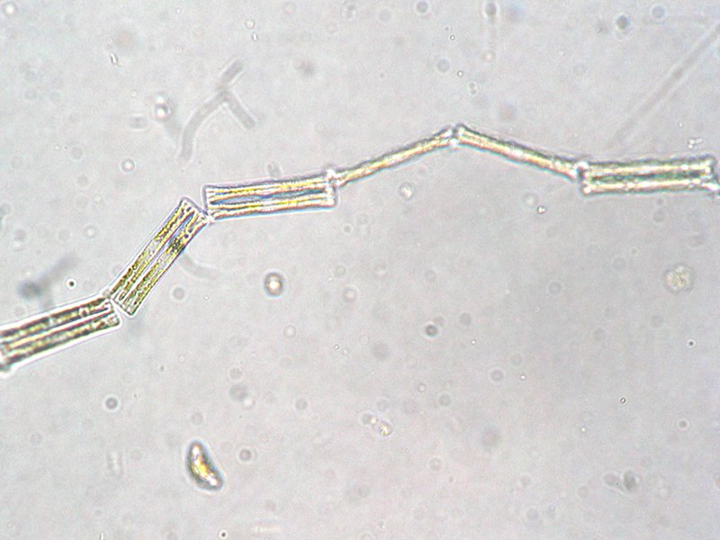 This work is free and may be used by anyone for any purpose. If you wish to use this content, you do not need to request permission as long as you follow any licensing requirements mentioned on this page.